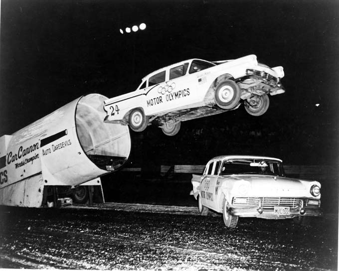 Collection Name: Missouri State Fair Collection, Missouri Memories: A History in Photographs Click here to see entire Collection Photographer/Studio: Unknown Description: Image shows a motor olympic automobile being shot out of a car cannon over another automobile. Coverage: United States - Missouri - Sedalia Date: ca. 1960s Rights: Copyright is in the public domain. Credit: Courtesy of Missouri State Archives Image Number: Memories_0061 Institution: Missouri State Archives